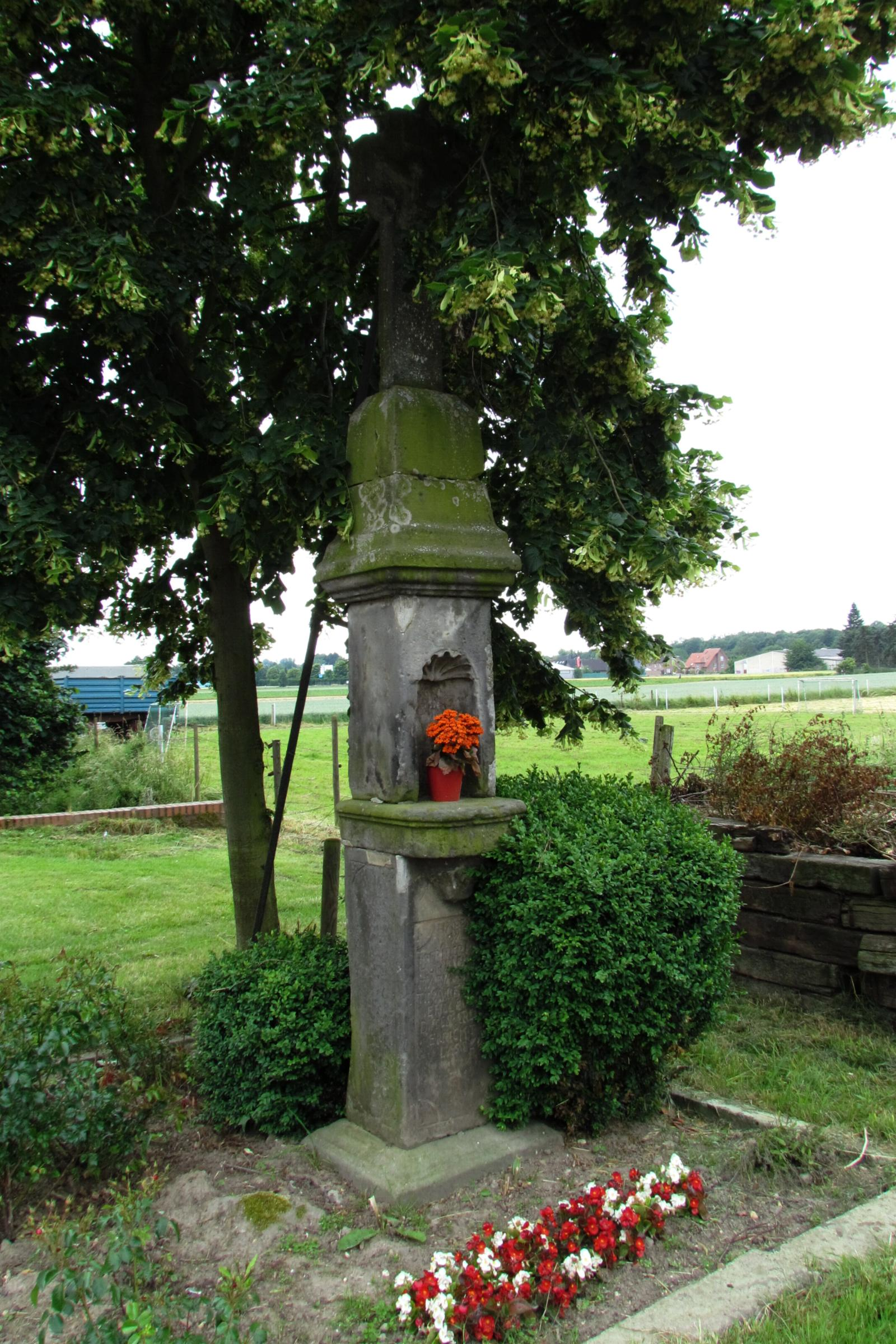 This is a photograph of an architectural monument.It is on the list of cultural monuments of Korschenbroich